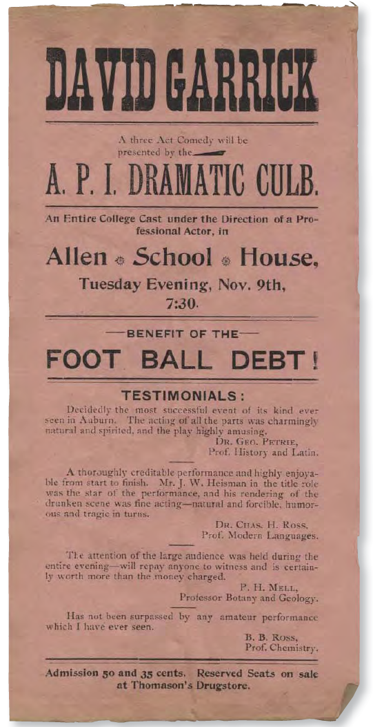 Picture of poster for the play David Garrick produced and acted in by John Heisman. Auburn University 1897